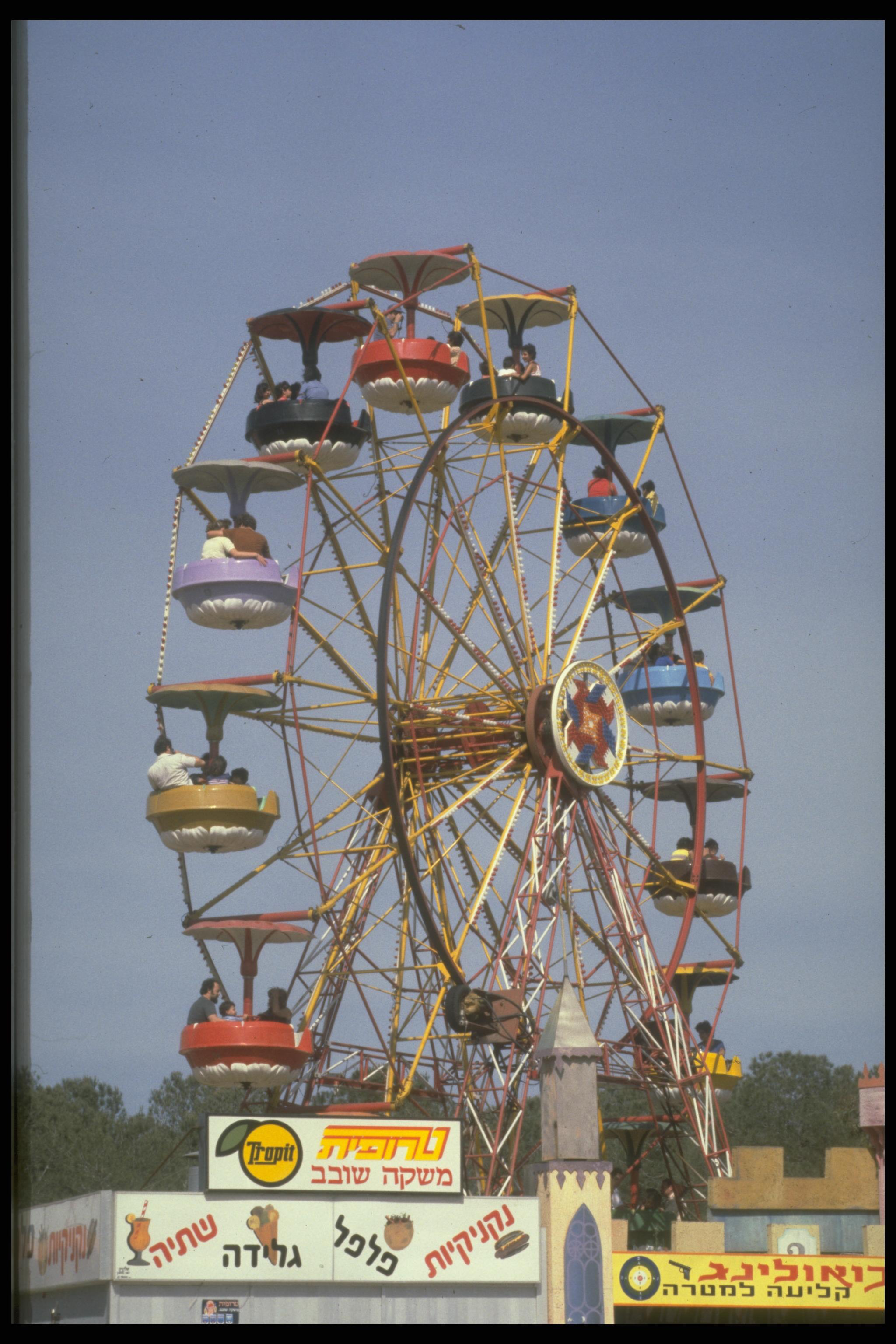 Kids ride the Ferris wheel in the Children's City at the Tel Aviv convention center. גלגל ענק ב-עיר הילדים - בגני התערוכה בתל אביב Photo: Moshe Milner (1946–) Alternative names Miylner, Moše; Milner, Mosheh; Moshé Milner; Milner, M.; Mîlner, Moše; Miylner, MošehDescriptionIsraeli photographerצלם ישראליDate of birth 1946 Location of birth Germany Authority control : Q28750411 VIAF: 100999744 ISNI: 0000 0001 0804 0507 LCCN: n82072104 GND: 115699732 BNF: 15548788n WorldCat creator QS:P170,Q28750411 , 04/03/1980